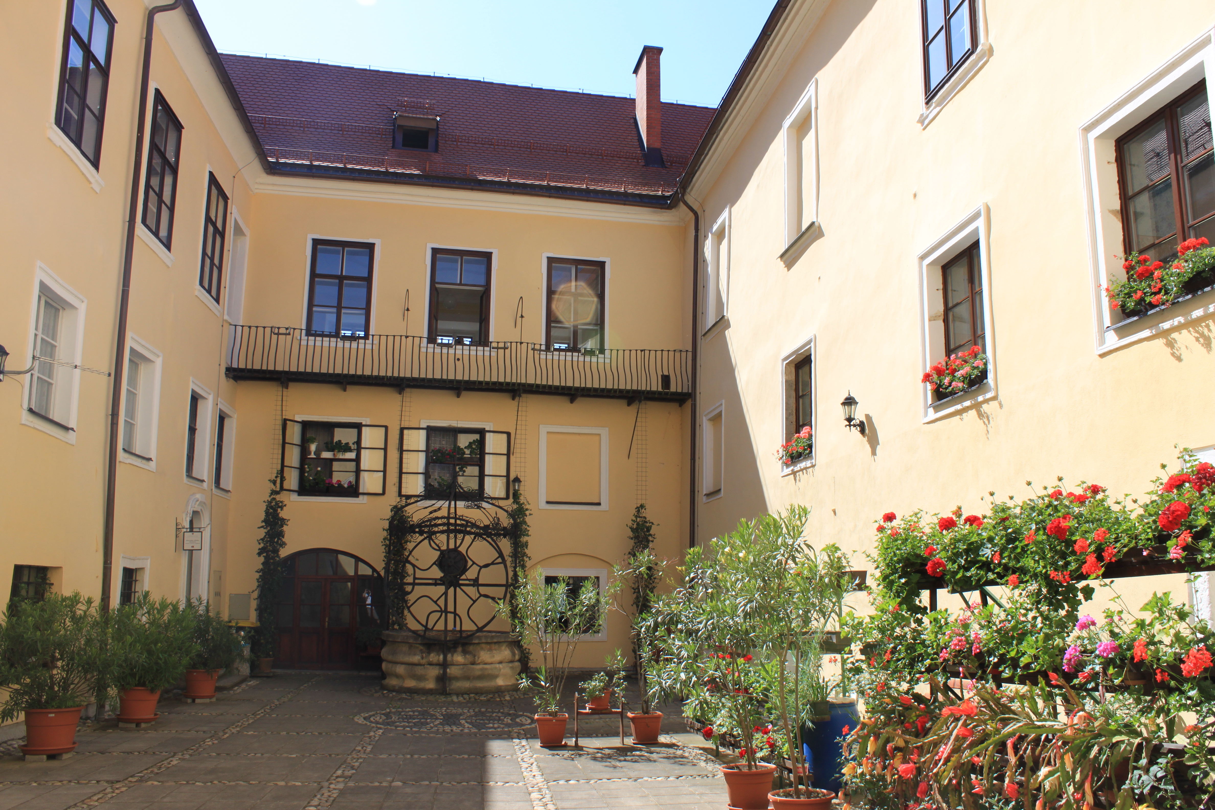 Castle Großsonntag (Velika Nedelja), Slovenia, inner courtyard (German: Großsonntag in the meaning of Easter Sunday)